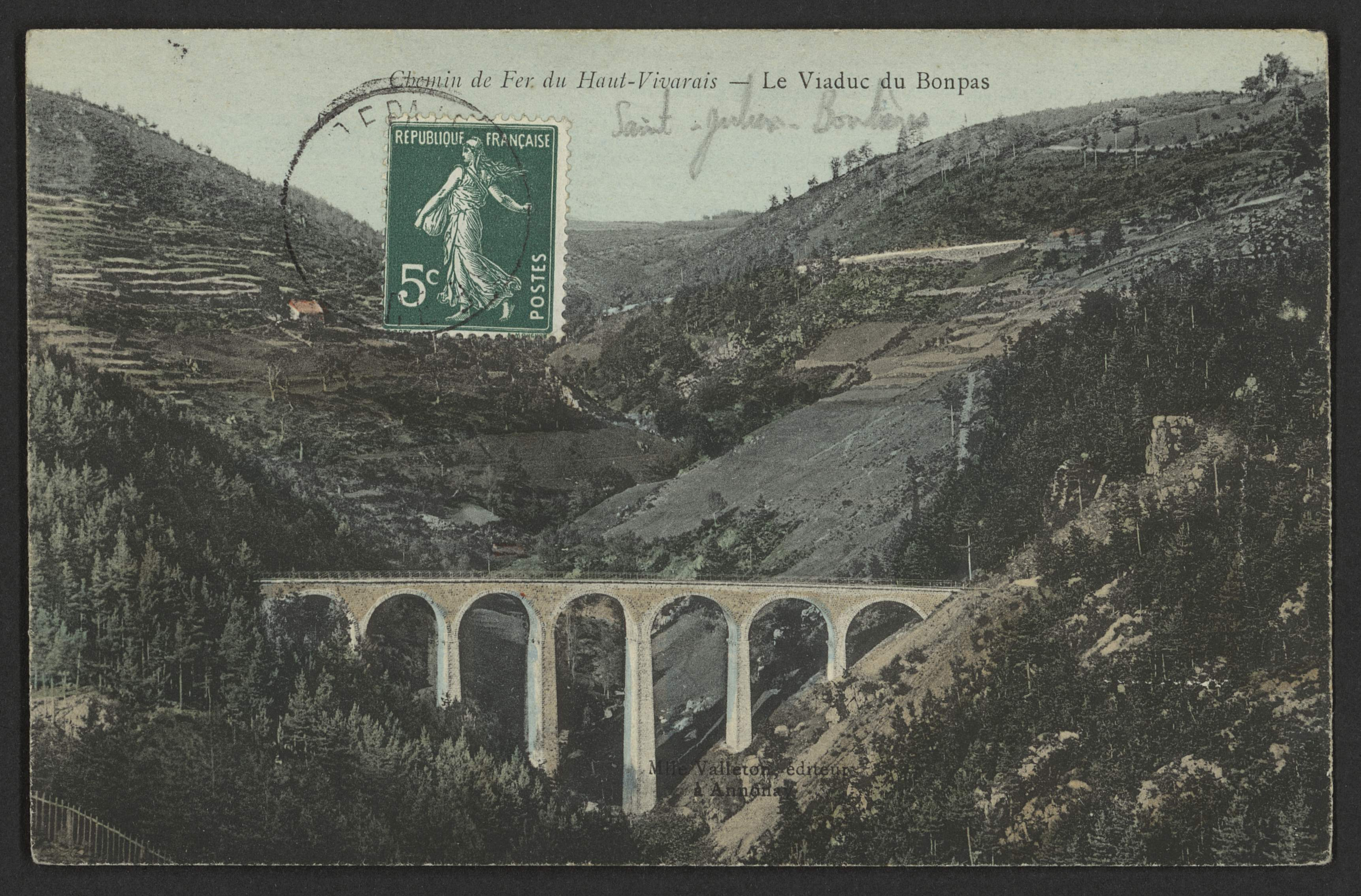 Gares and chemin de fer Ponts and viaducs Ardèche